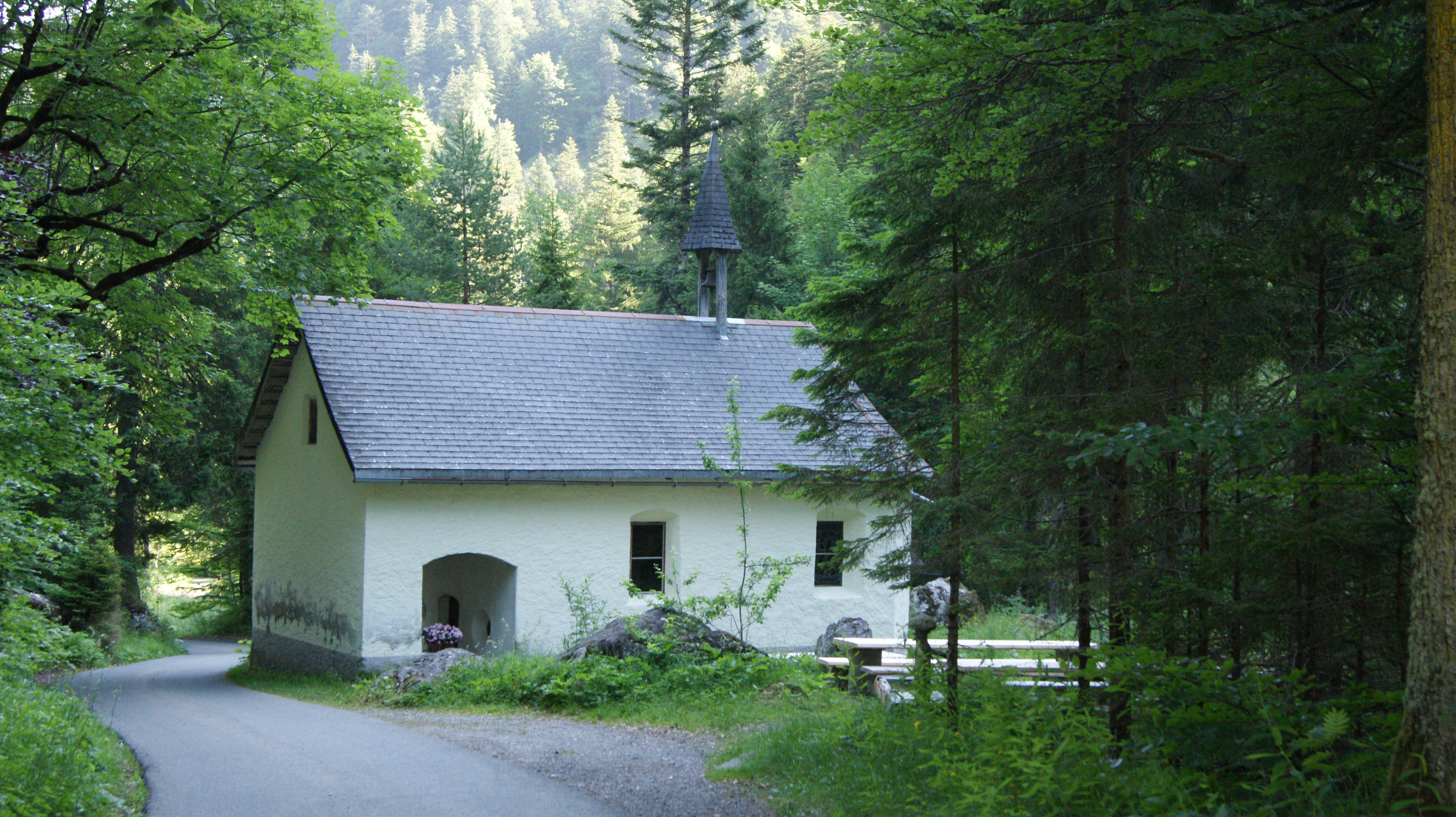 Pilgrimage chapel Kuehbruck (Our Lady of the Rosary) in the municipality of Nenzing, Vorarlberg, Austria. Built in 1806.